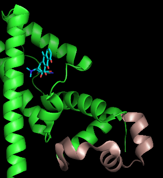 Anhydrotetracycline-magnesium complex (blue) binding to cavity of TetR (green). Helix-turn-helix motif of TetR shown in light pink. PDB: 4D7M